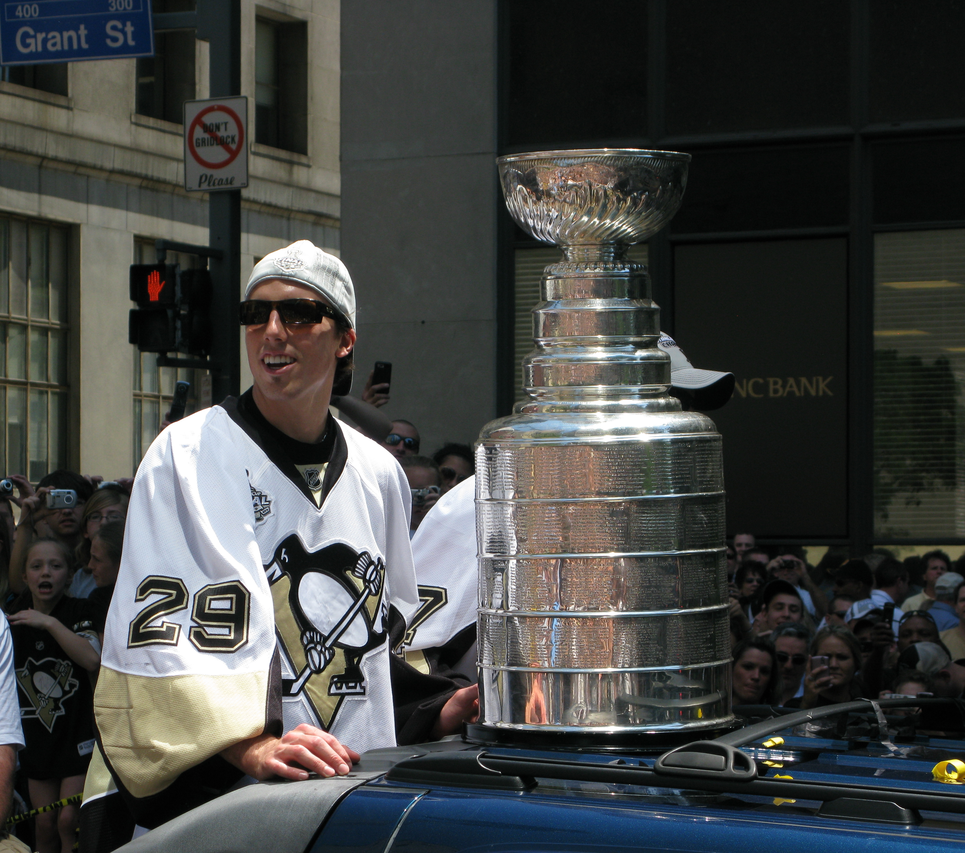 Pittsburgh Penguins goaltender Marc-Andre Fleury participating in Stanley Cup Parade, June 15, 2009.